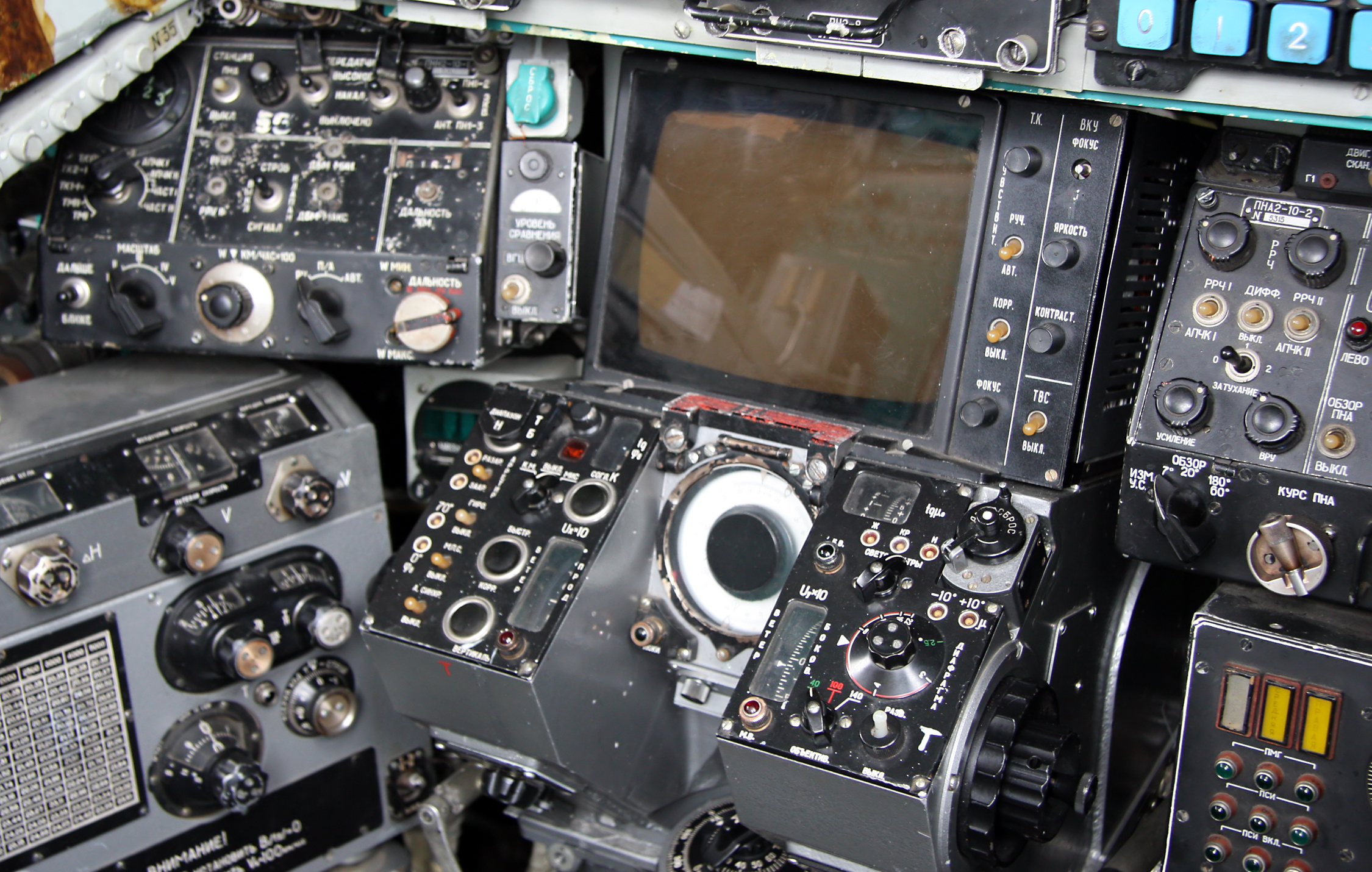 Cockpit of Tupolev Tu-22M3 bomber, navigator panel